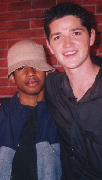 Danny O'Donoghue and Eric West